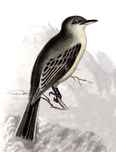 Empidonax obscurus (now Gray Flycatcher Empidonax wrightii ref), hand-colored lithograph